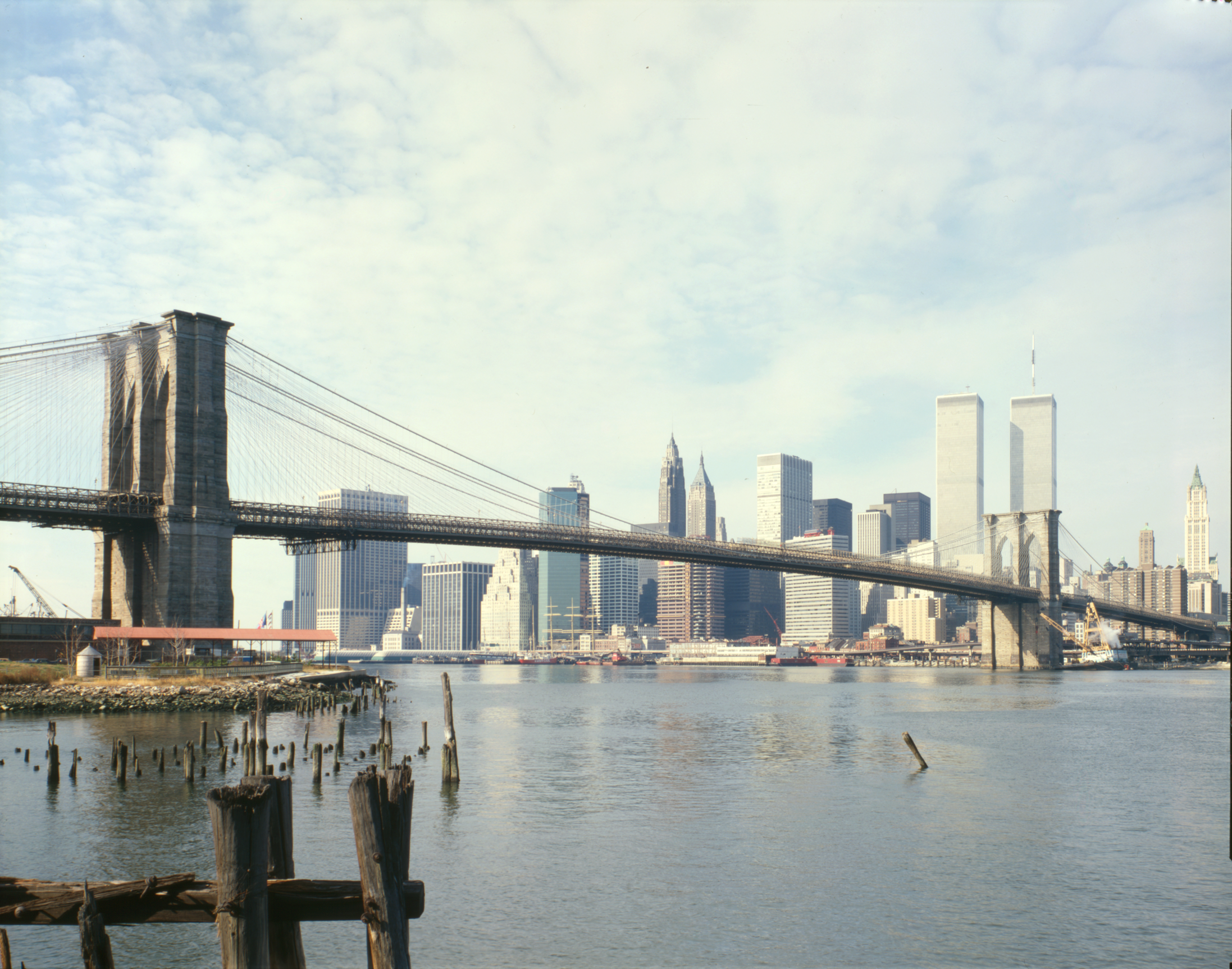 Brooklyn Bridge, Spanning East River between Brooklyn & Manhattan, New York City, New York County, NY Library of Congress information: TITLE: Brooklyn Bridge, Spanning East River between Brooklyn & Manhattan, New York City, New York County, NY CALL NUMBER: HAER, NY,31-NEYO,90- DATE: Documentation compiled after 1968. NOTE: Survey number HAER NY-18 Building/structure dates: 1869 SUBJECTS: NEW YORK--New York County--New York City suspension bridges COLLECTION: Historic American Engineering Record (Library of Congress) REPOSITORY: Library of Congress, Prints and Photograph Division, Washington, D.C. 20540 USA CARD #: NY1234